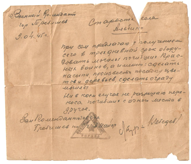 Letter from (Red Army officer) major Lebedev, Deputy Commander of the Town of Trebišov (seemingly political commissar), to the mayor of Sečovce (April 9, 1945).